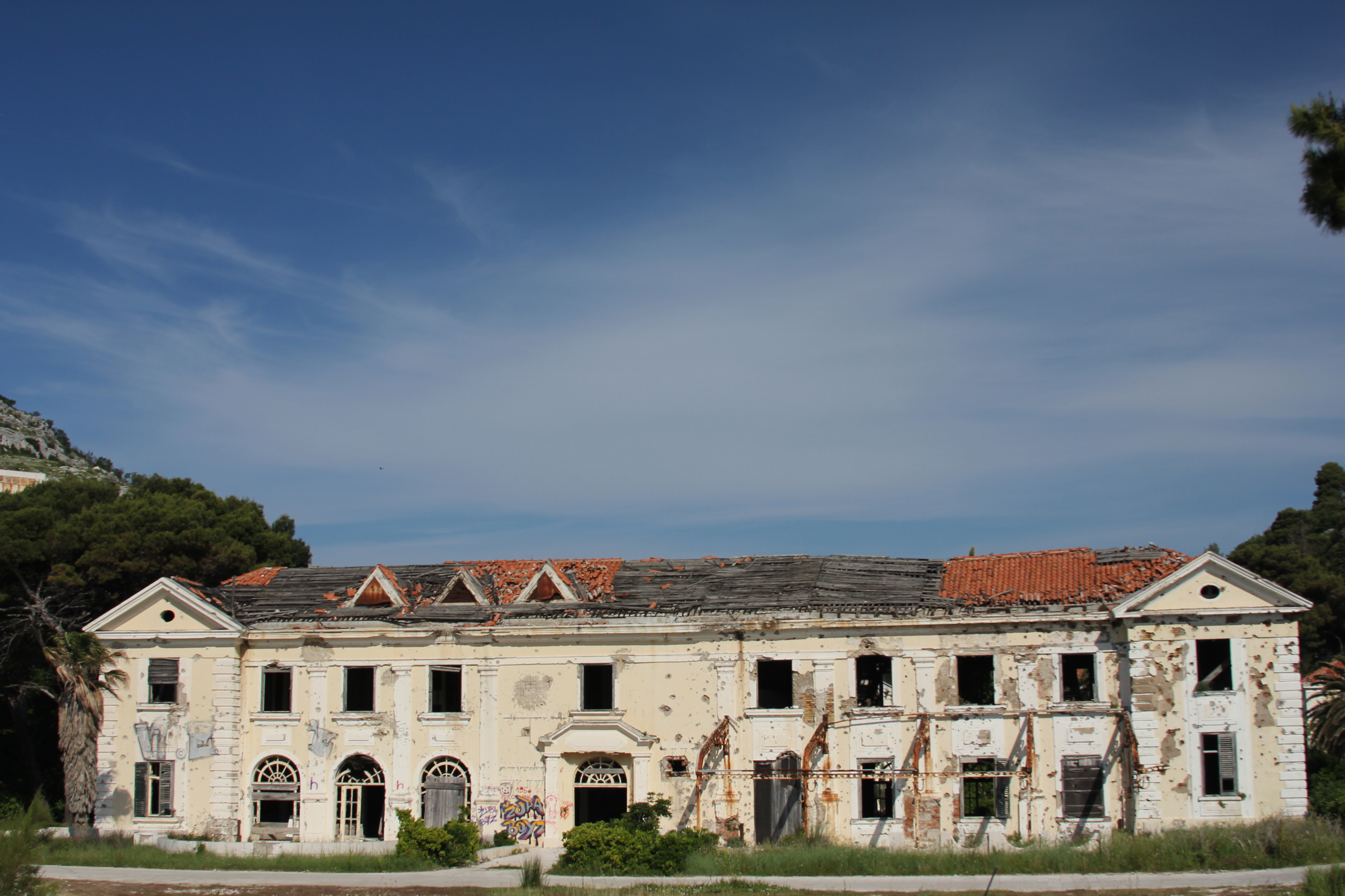 The Grand Hotel, Kupari, Croatia